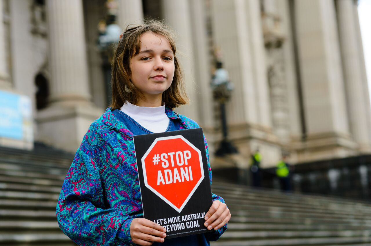 Melbourne Launch of the School Strike for Climate Action